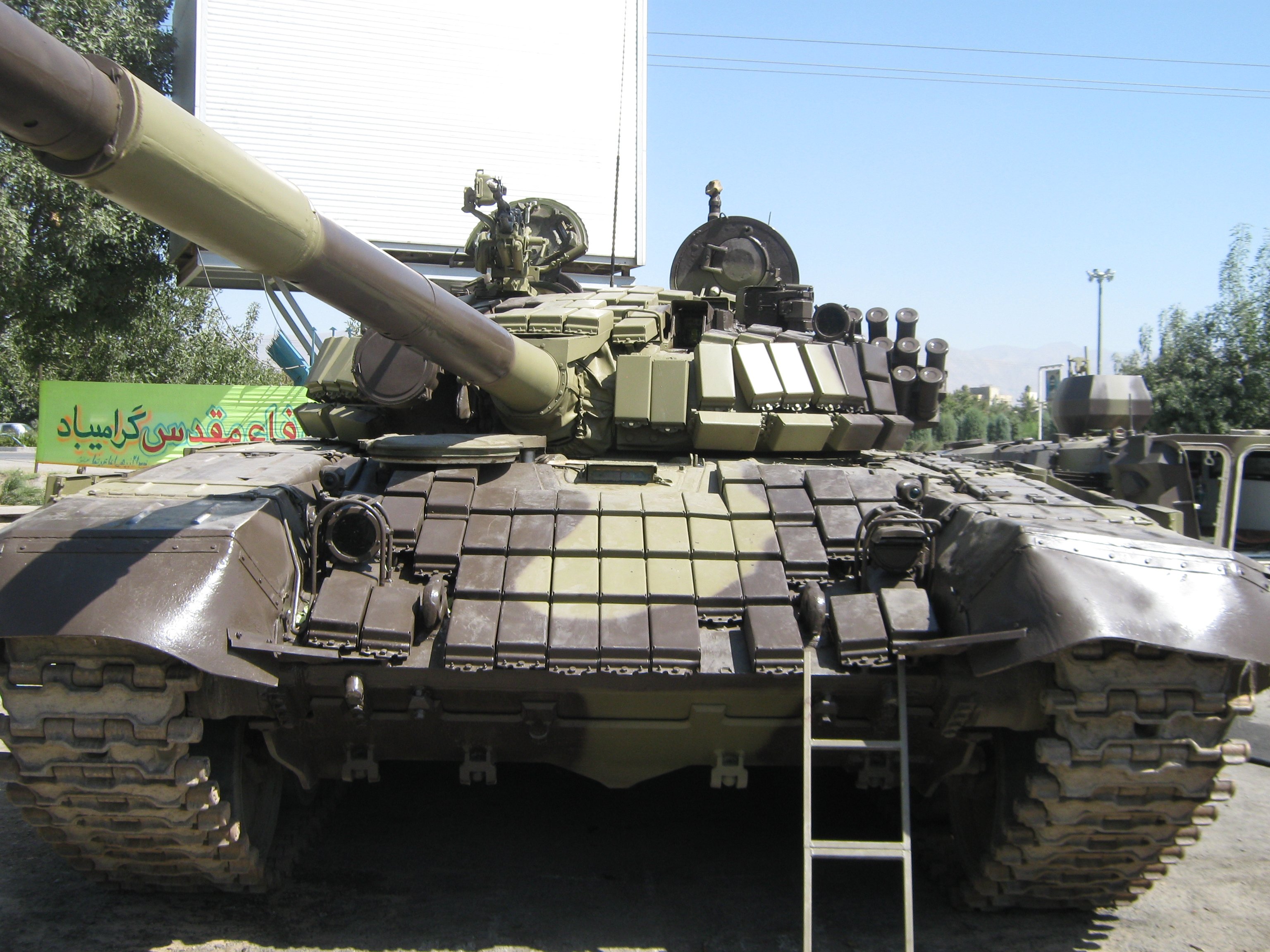 Holy Defence Week Expo - Simorgh Culture House - Nishapur